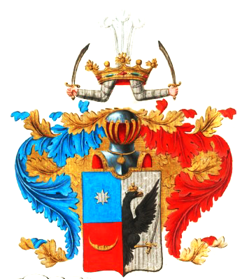 Coat of Arms of Shcherbinin family